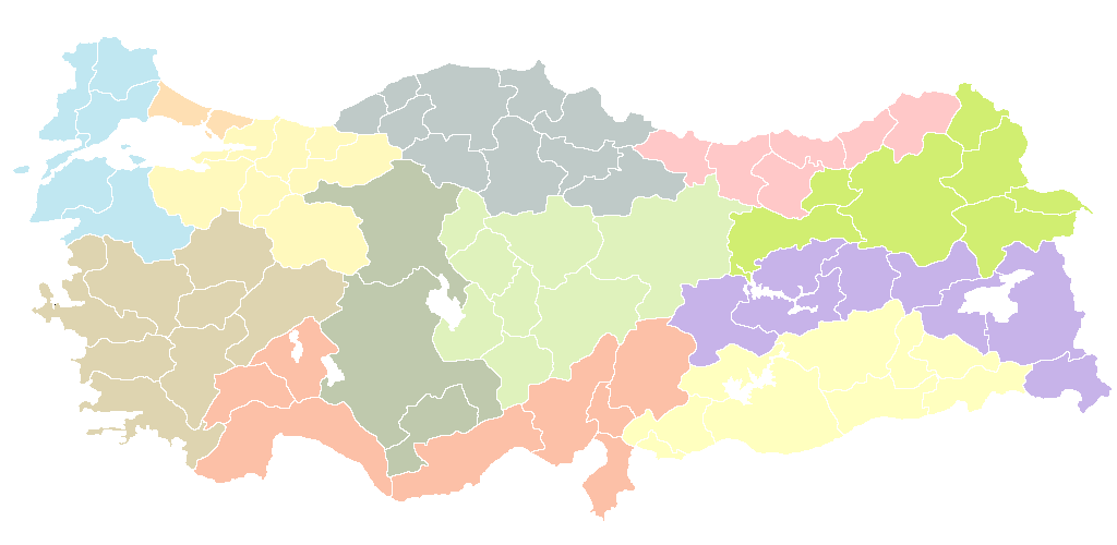 This map shows the first NUTS-level of the Turkish Republic